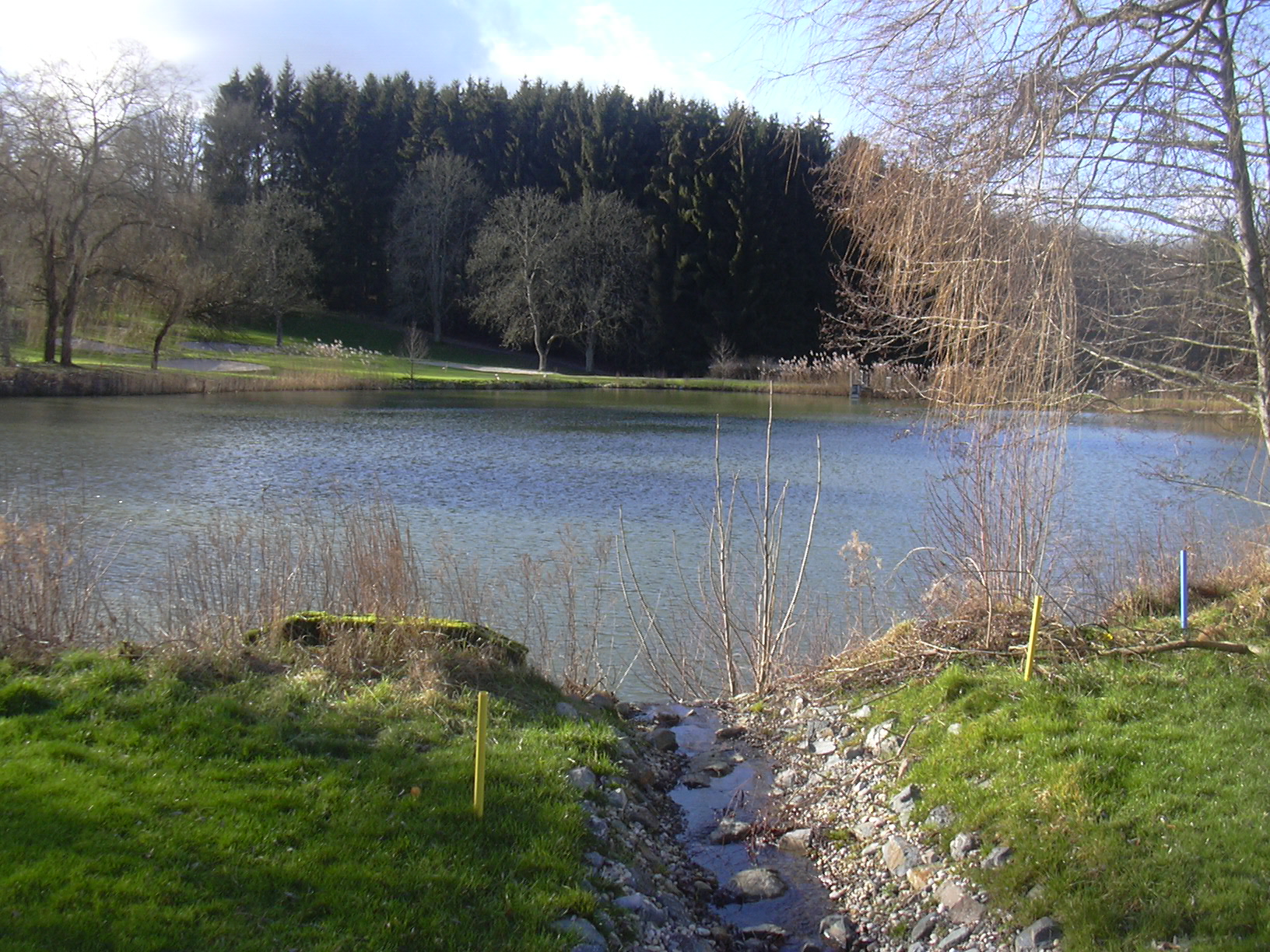 Golf course near Braunfels Castle, Germany